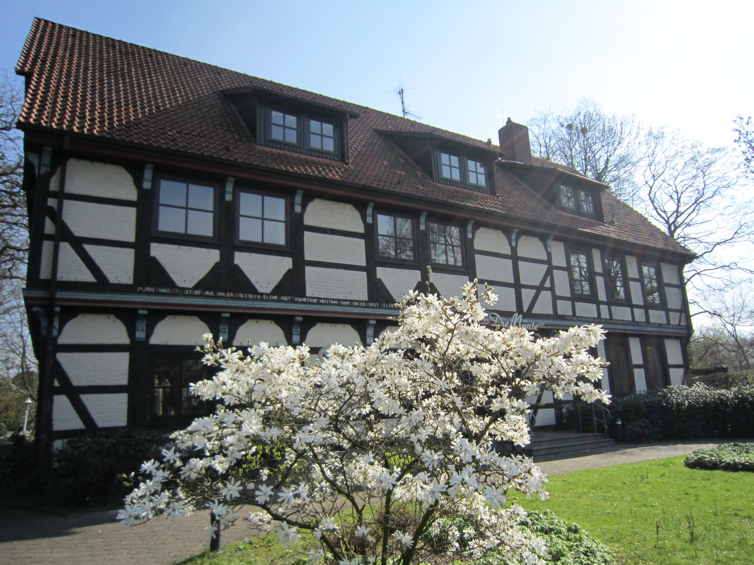 County music school at the "Münte" building in Diepholz